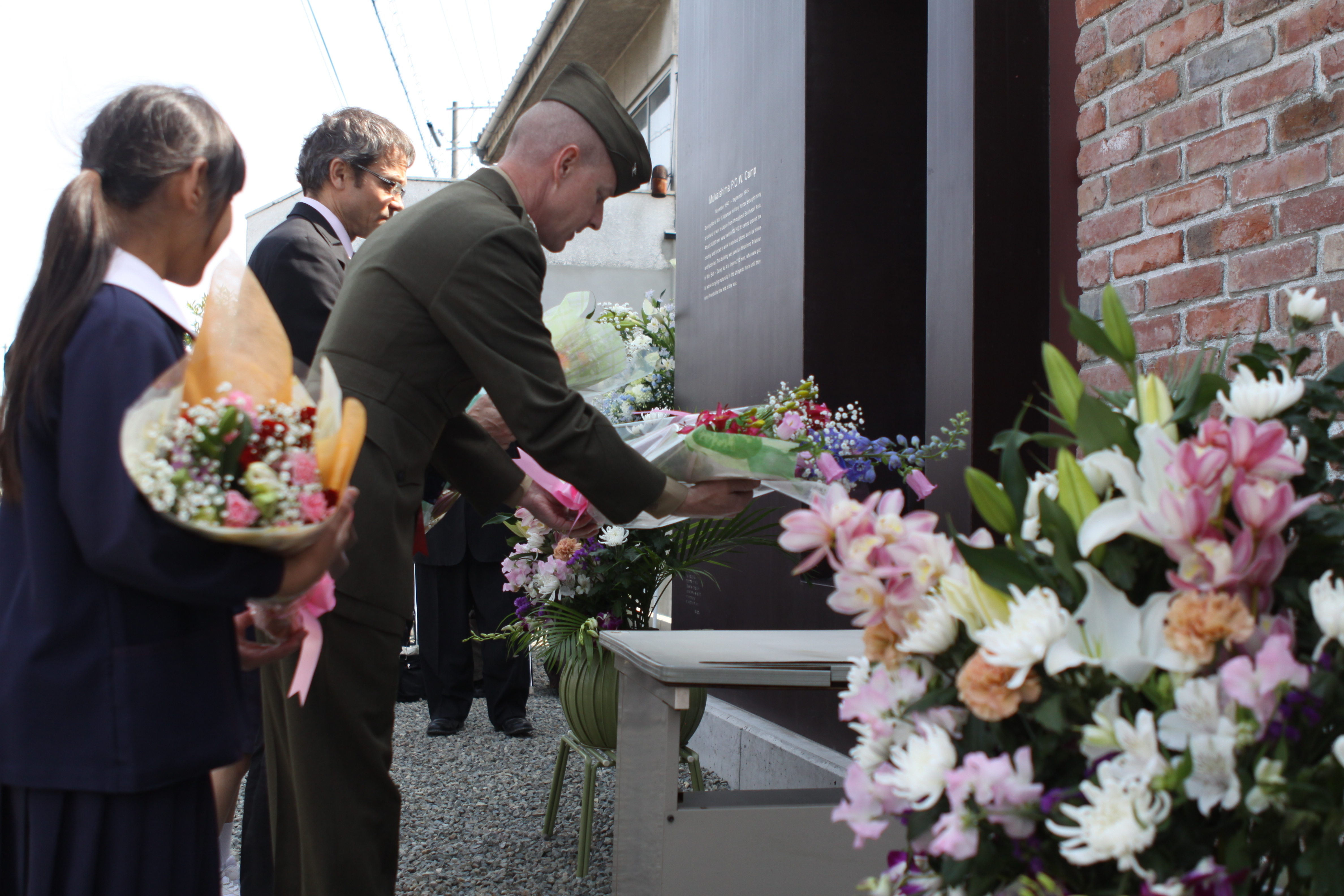 Marine Corps Air Station Iwakuni Commanding Officer Col. James C. Stewart, British consulate general of Osaka Consul General Simon Fisher, and Mukaishima Chuo Elementary School first grader Aoi Ode, lay bouquets of flowers April 15, 2013, at the memorial site for POWs who were captured or killed at the former Mukaishima POW Sub Camp No. 4. The part of Onomichi where the memorial stands was once known as Mukaishima, and it is here where more than 200 Allied service members toiled in shipyards carrying materials until the war’s end in 1945.